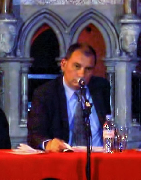 The panel at the public launch of the Euston Manifesto (May 25, en:2006). From left to right: Alan Johnson, Eve Garrard, Nick Cohen, Shalom Lappin and Norman Geras.